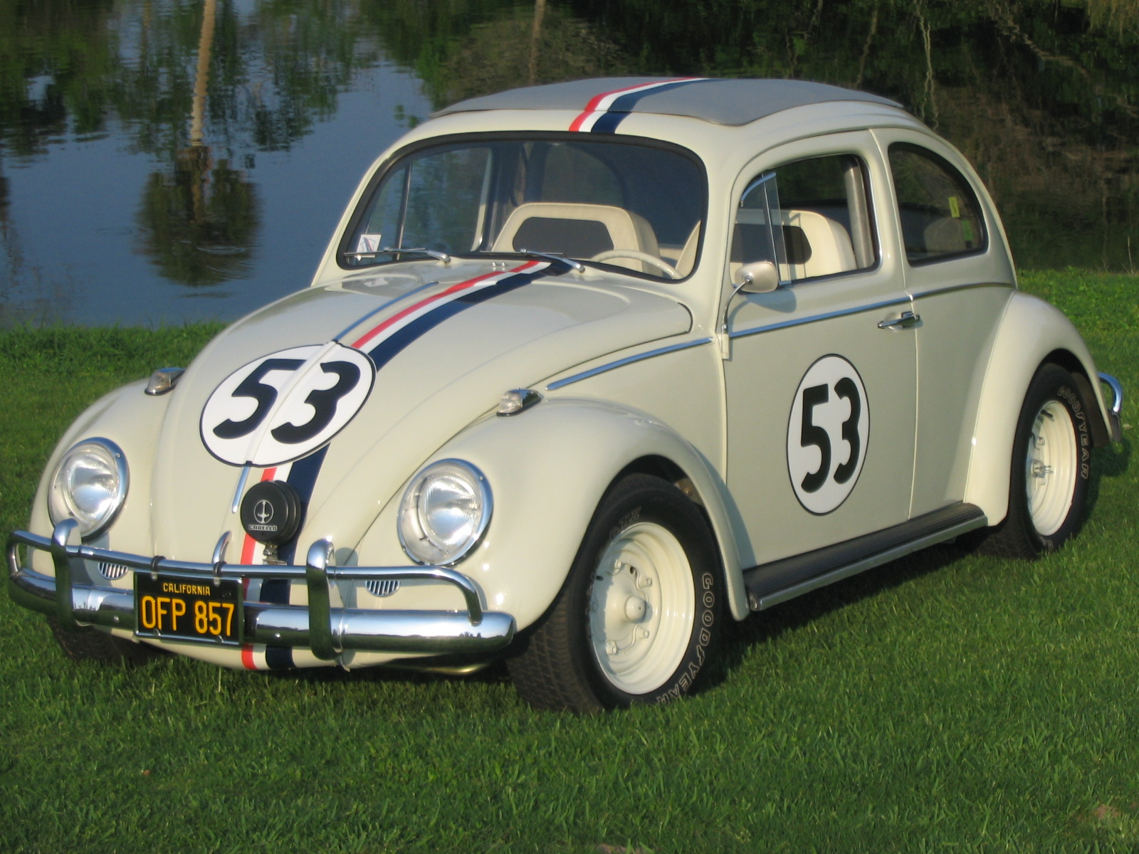 Picture taken of my original Herbie movie car at car show in Orlando Florida 2006